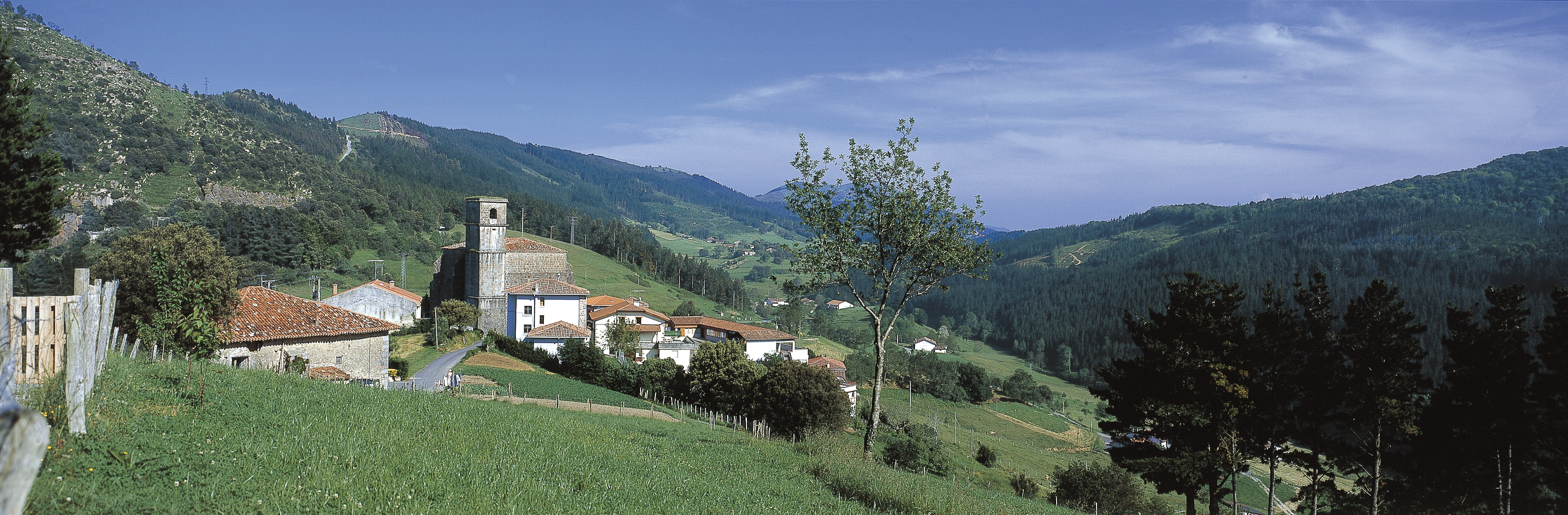 Panorama of Ereño (Biscay, Basque Country).